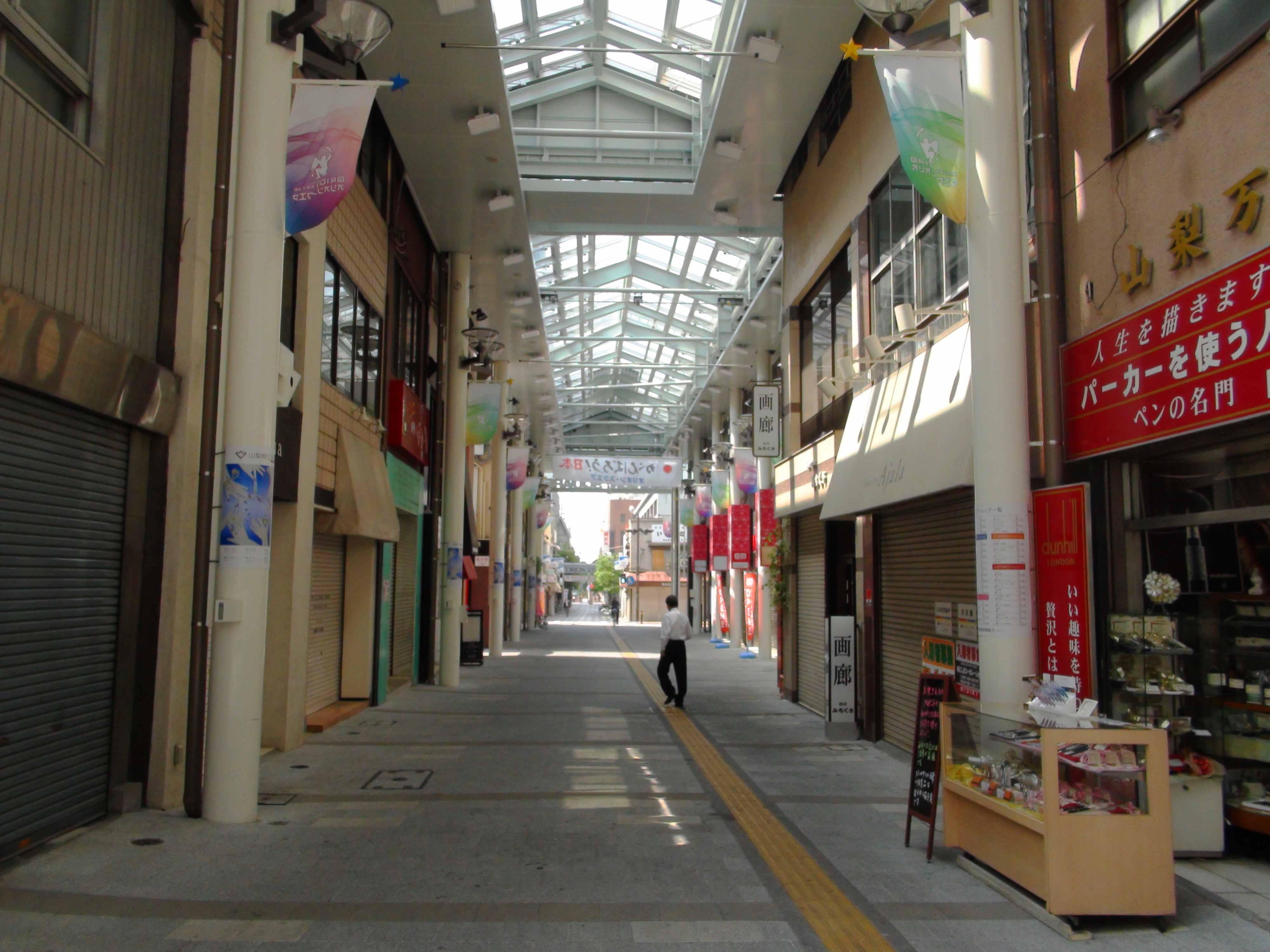 Orion Street mall Kofu-City